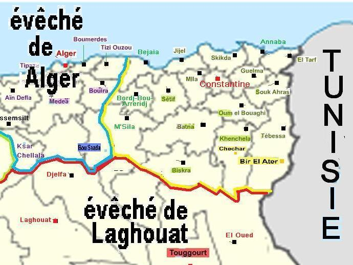 Diocese of Constantine